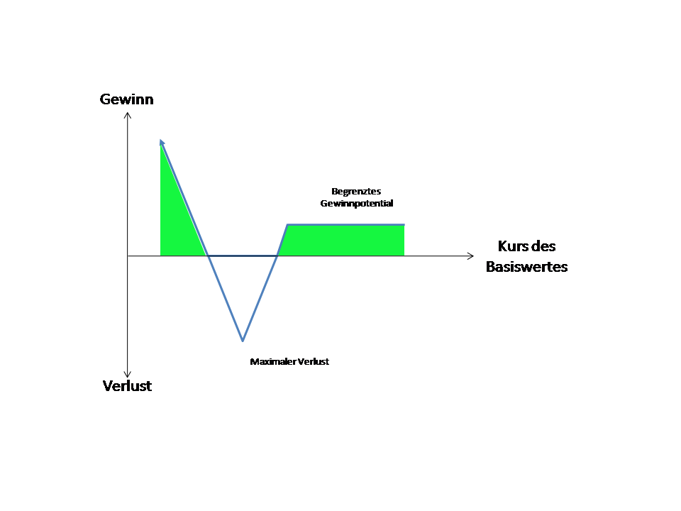 Back Spread Put